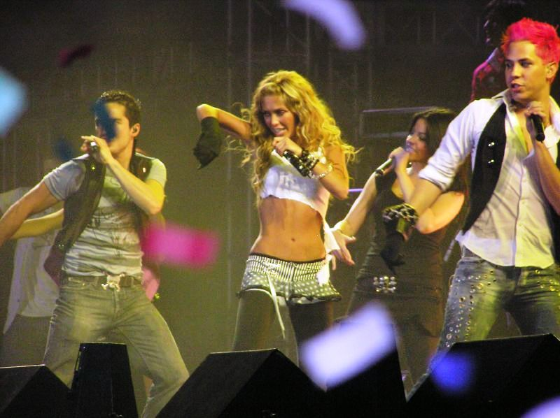 RBD in the Reventon Superestrella 2006 at the LA Coliseum